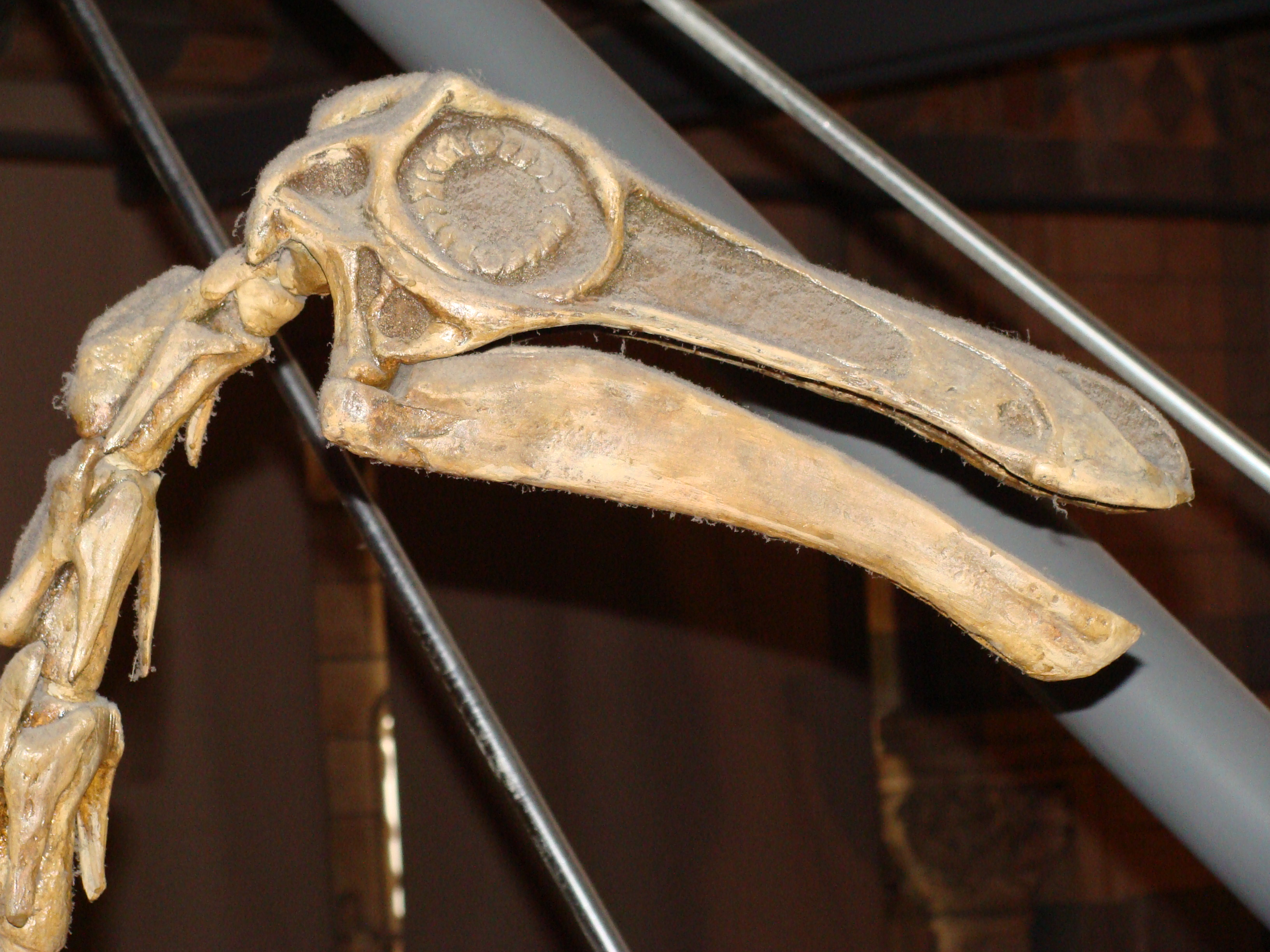 Gallimimus bullatus in the Natural History Museum of London